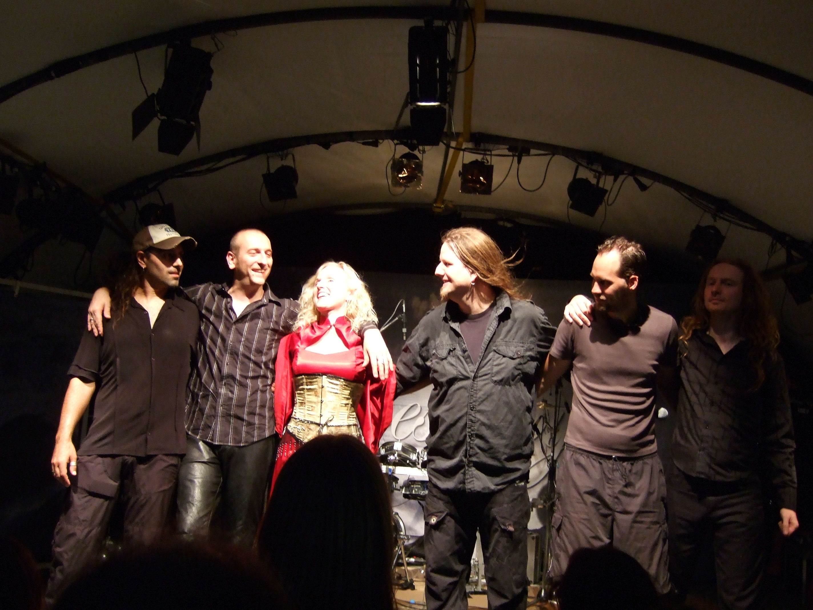 Leaves' Eyes, Henkersfest Stuttgart, July 2007